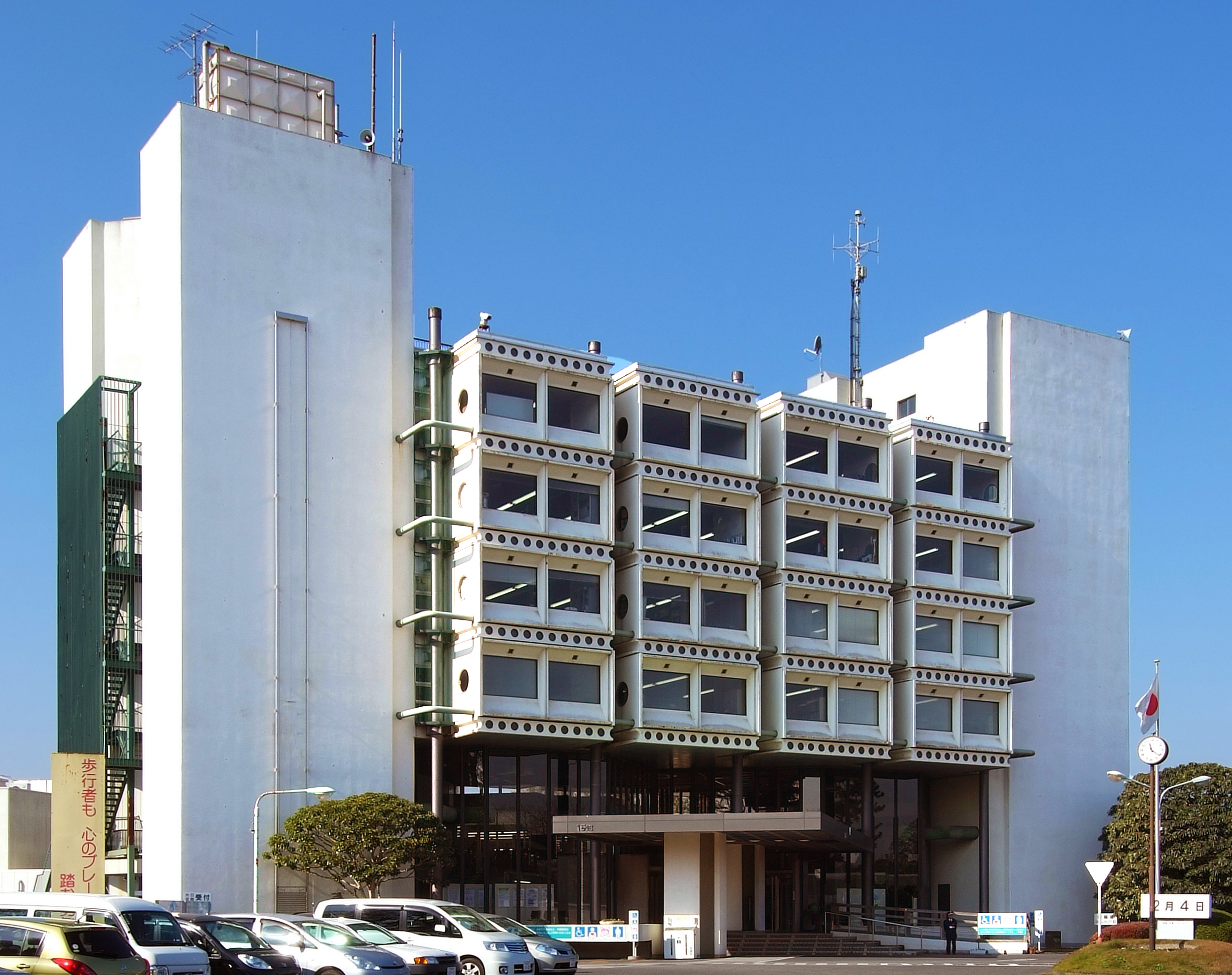 Sakura City Office, at Sakura Chiba Japan, design by Kisho Kurokawa in 1971.